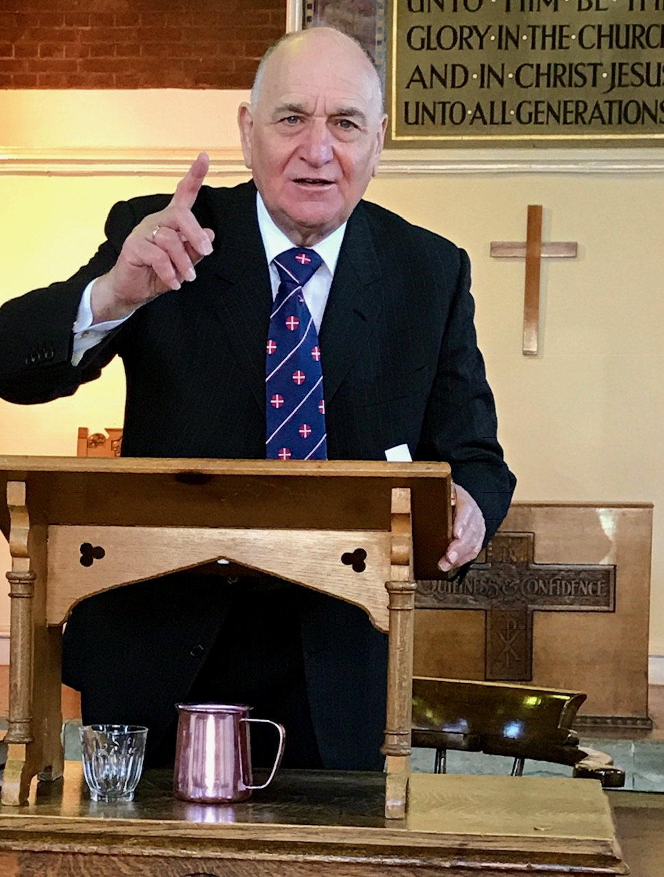 This photo was taken by Mrs Hallam for Mr Hallam's use on Sunday 24 March 2019 at City Road Methodist Church, Birmingham B16 0NL.